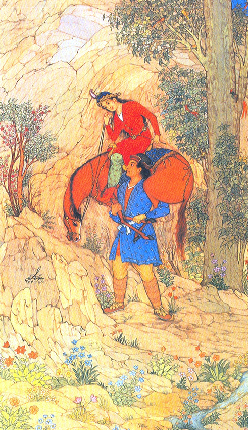 1951 painting. Artist is dead.